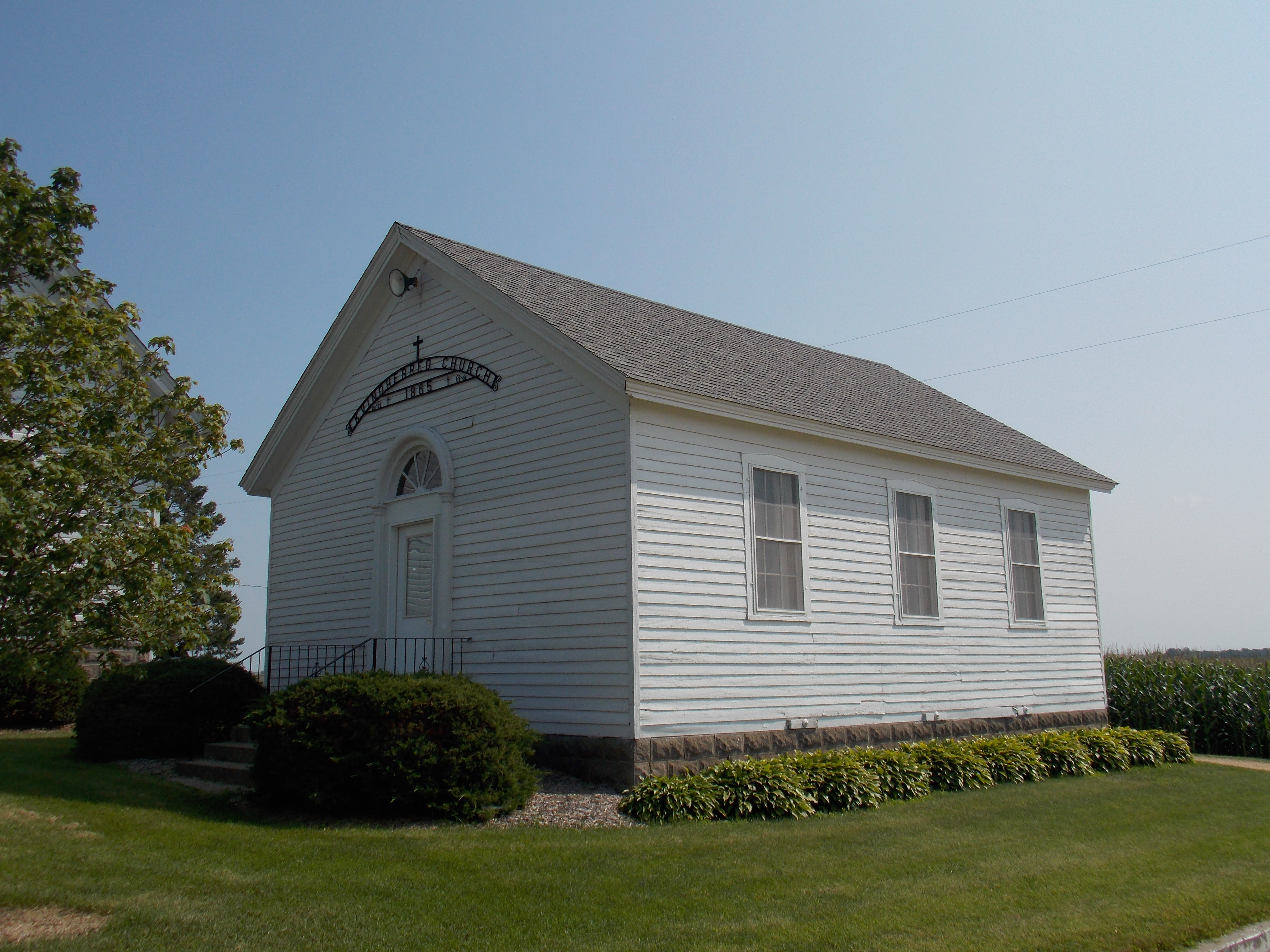 Kvindherred Lutheran Church near Calamus, Iowa is listed on the National Register of Historic Places. After the present church was built it was used as a school building.